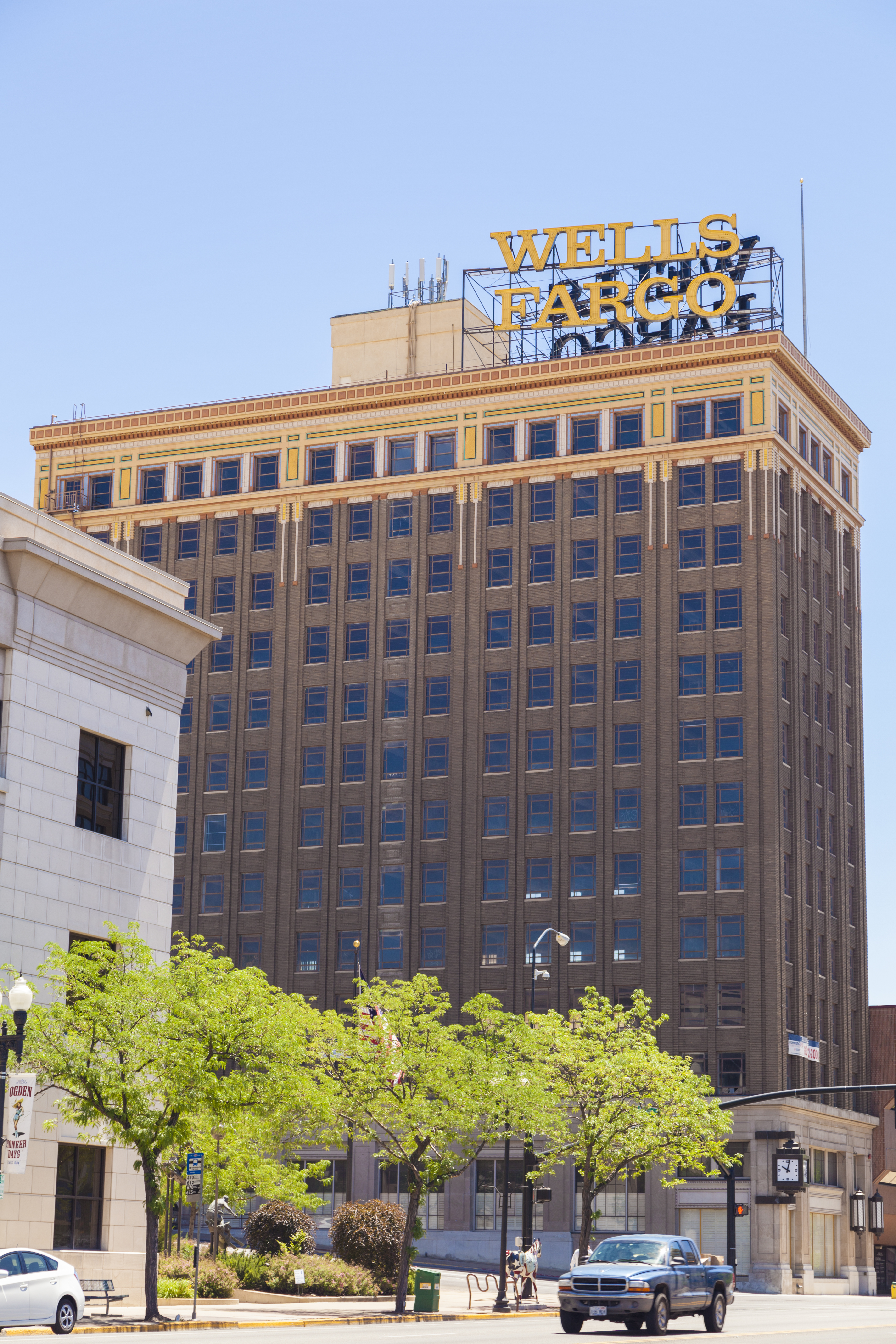 First Security Building in Ogden, Utah, USA. 2406 Washington Boulevard, Ogden, Utah 84401